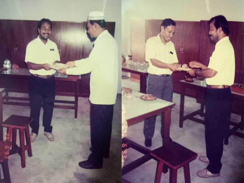 Majlis Penyerahan Pembukaan SMKBB